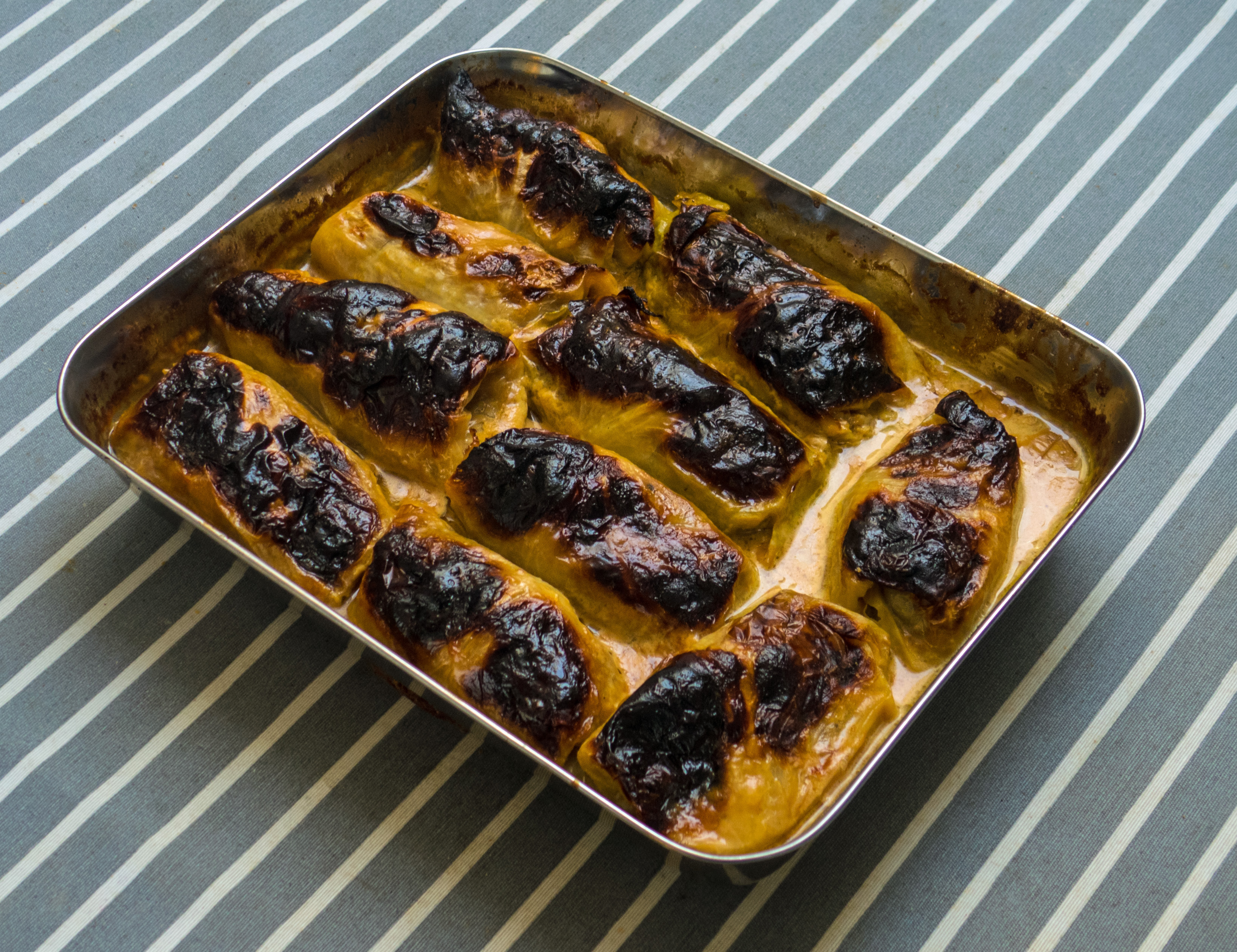 Oven-baked Finnish cabbage rolls (kaalikääryleet).